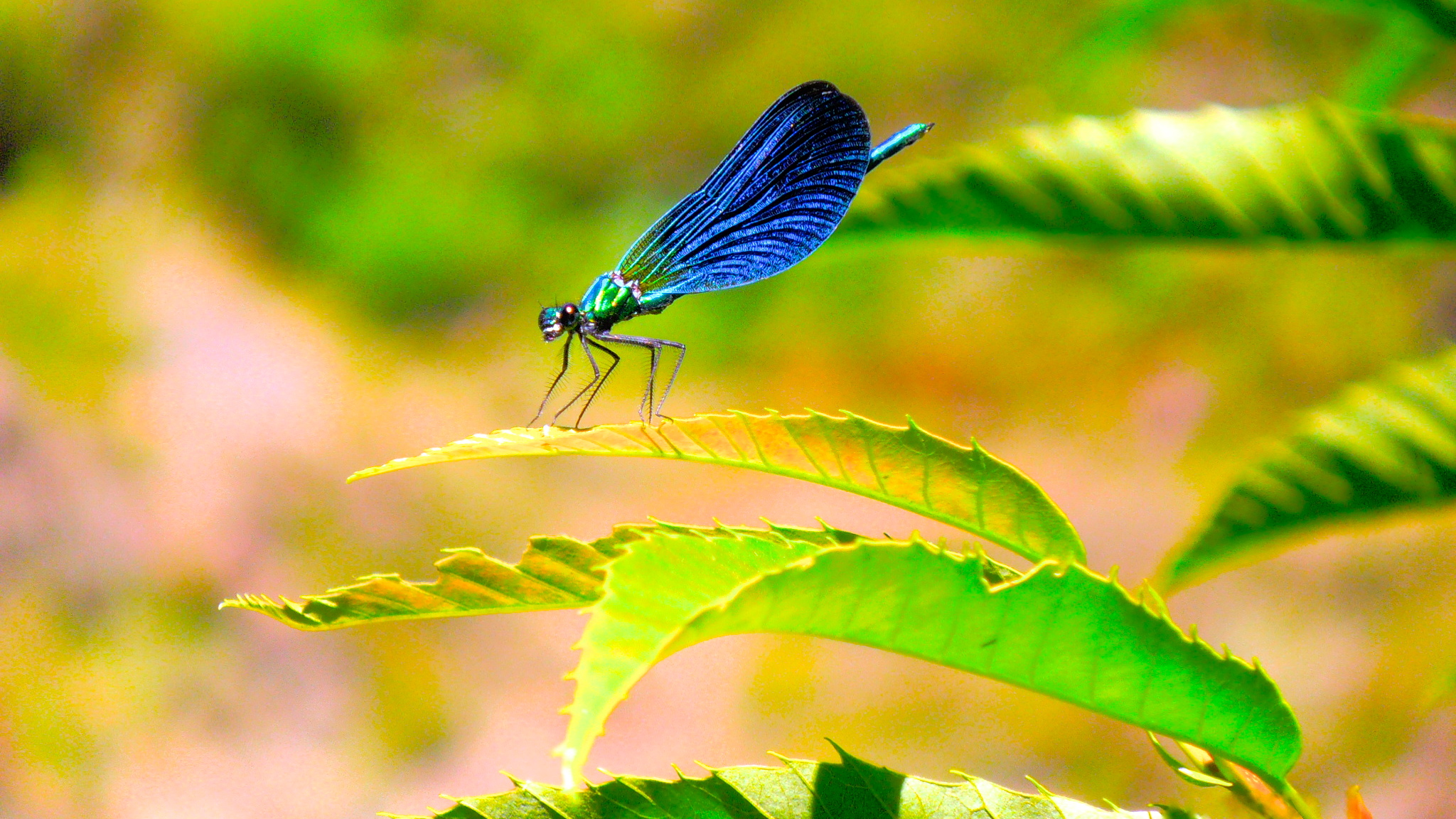 Male C. virgo